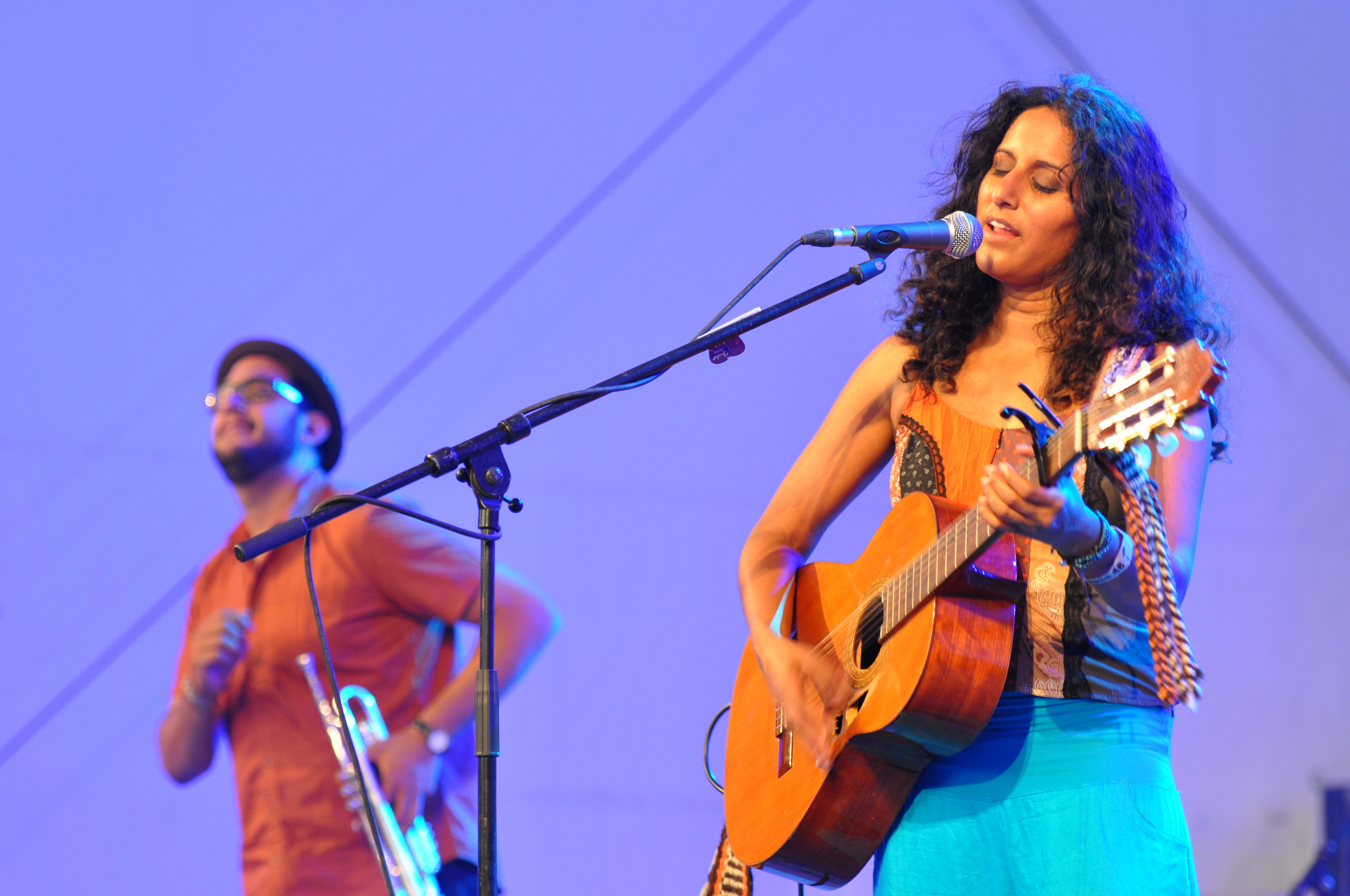 Rupa & The April Fishes (USA), appearance at the 12th World Music Festival "Horizonte" 2014 at the fortress of Ehrenbreitstein, Koblenz (Germany)